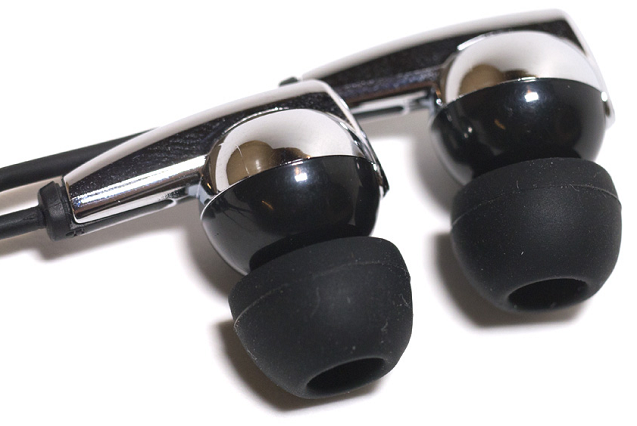 a\Among various types of headphones in the market, earbuds are good at noise cancellation